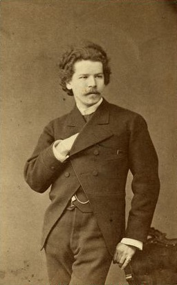 Photograph of Oskar Georg Adolf Hoffmann.